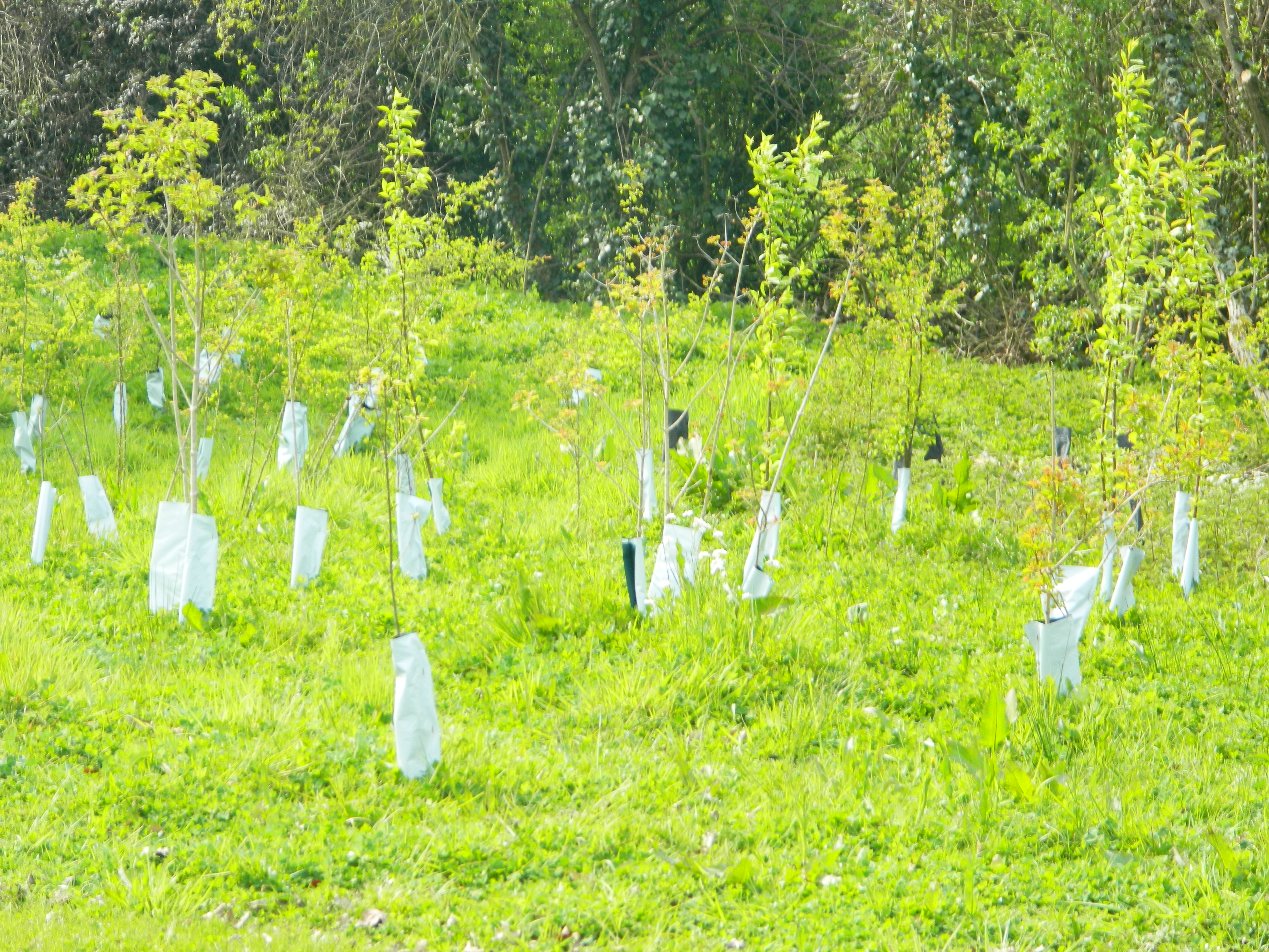 De gedachtenistuin